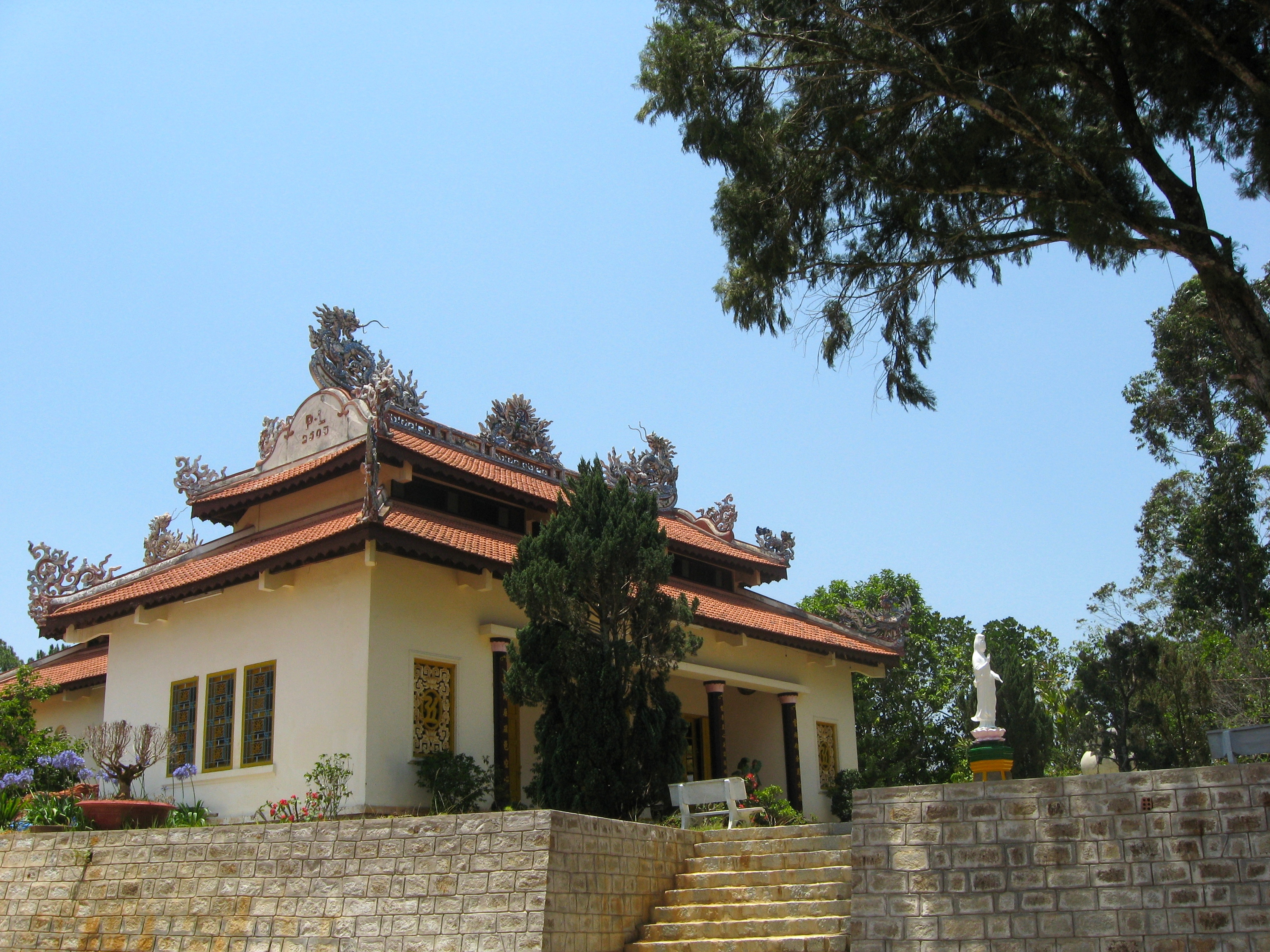 Linh Phong Pagoda